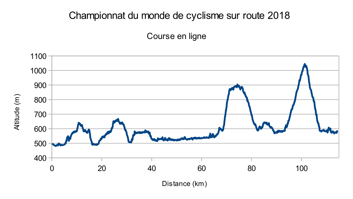 Profil of the begin of the women and men road race of World Championship 2018 in Innsbrück.